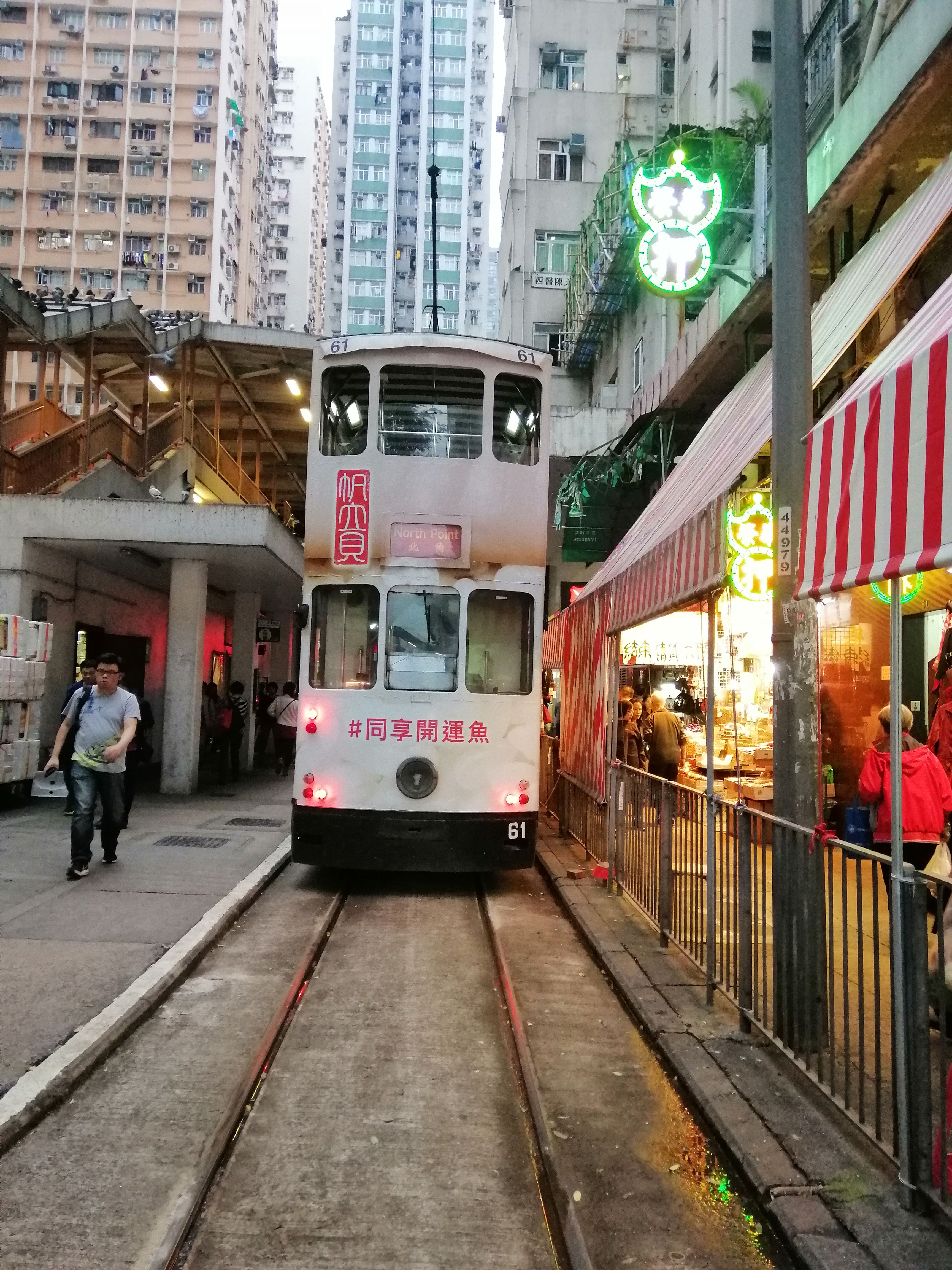 A tram stopped at North Point Tram Terminus, taken in March 2019